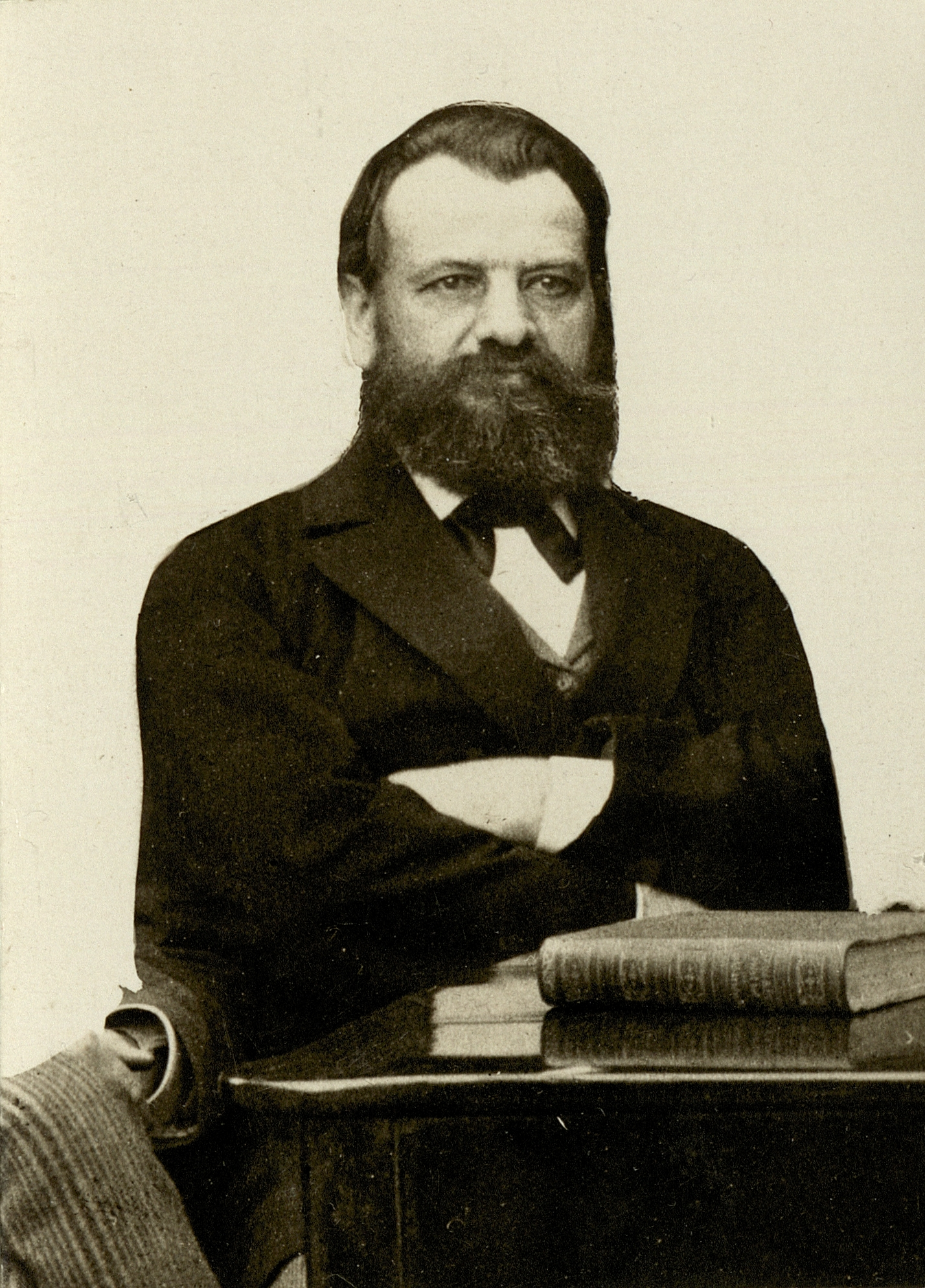 Matija Valjavec (1831-1897)